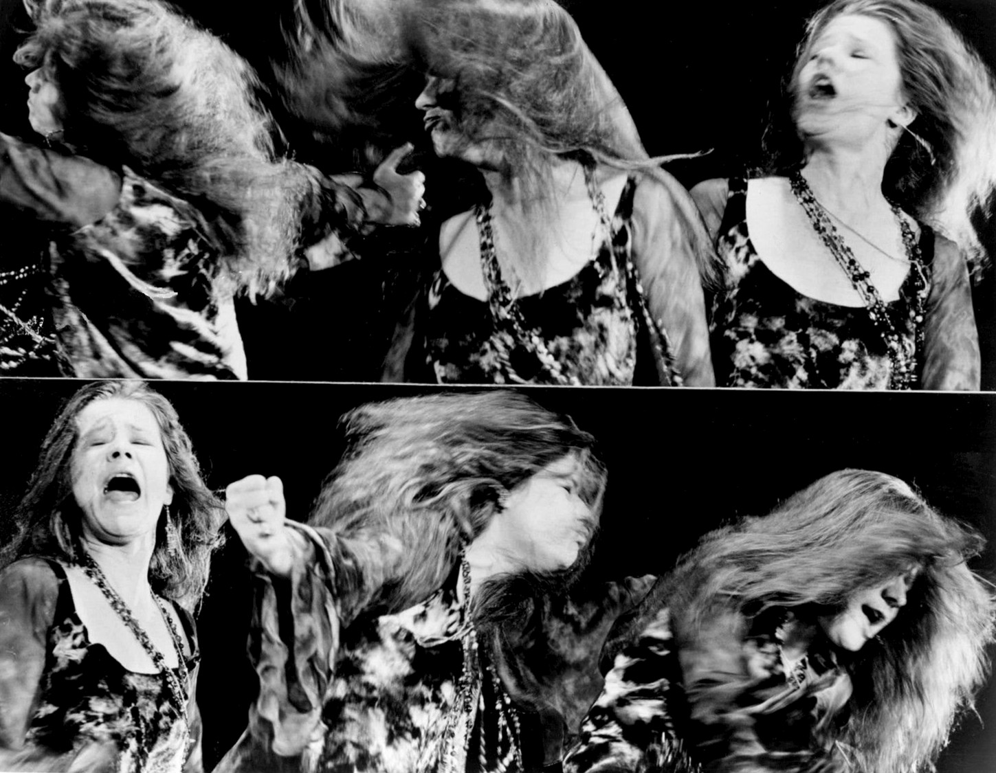 Photo montage of Janis Joplin performing on the television program "Music Scene".